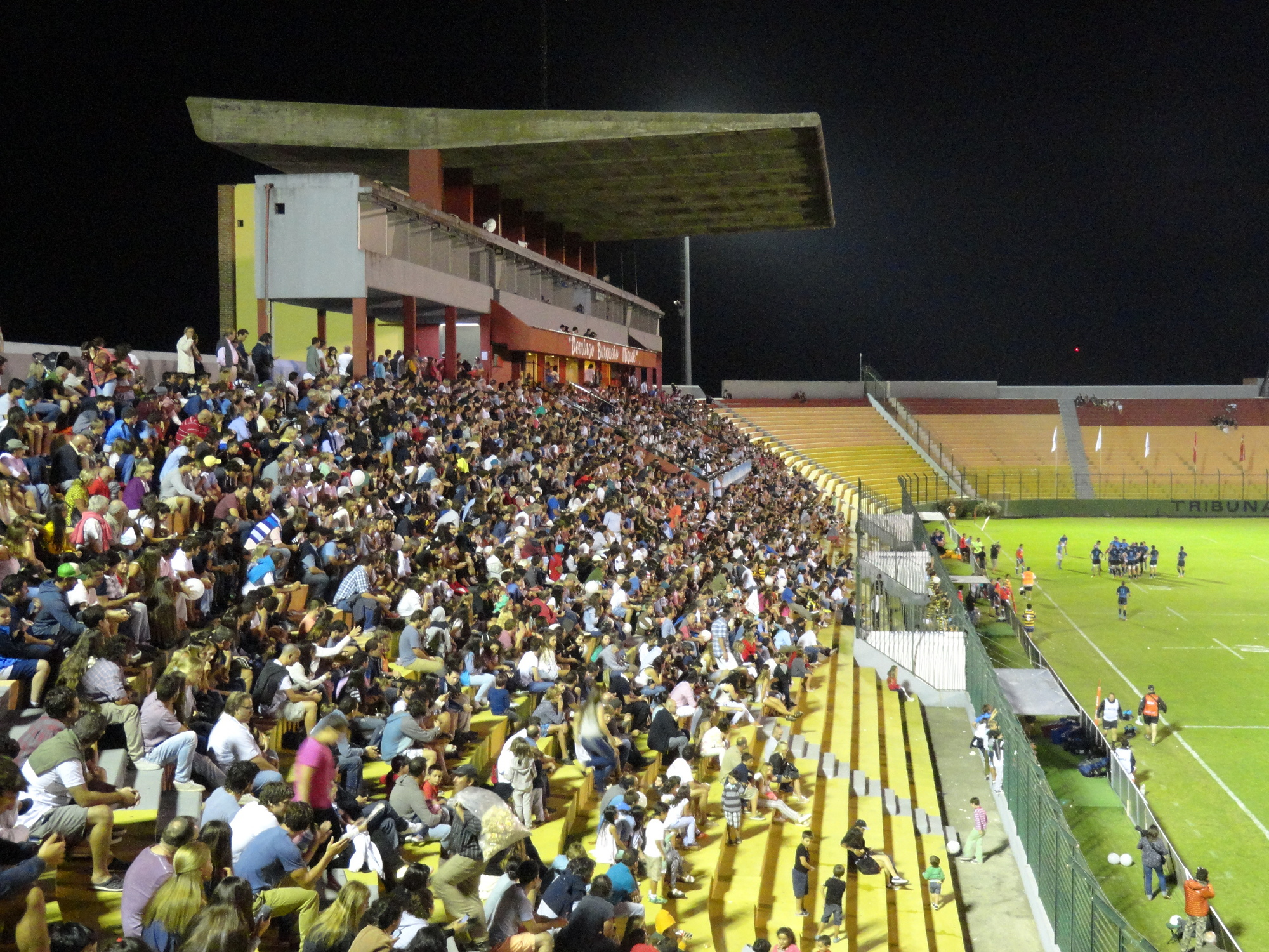 Uruguay's Teros vs Argentina XV match at the 2016 Americas Rugby Championship.